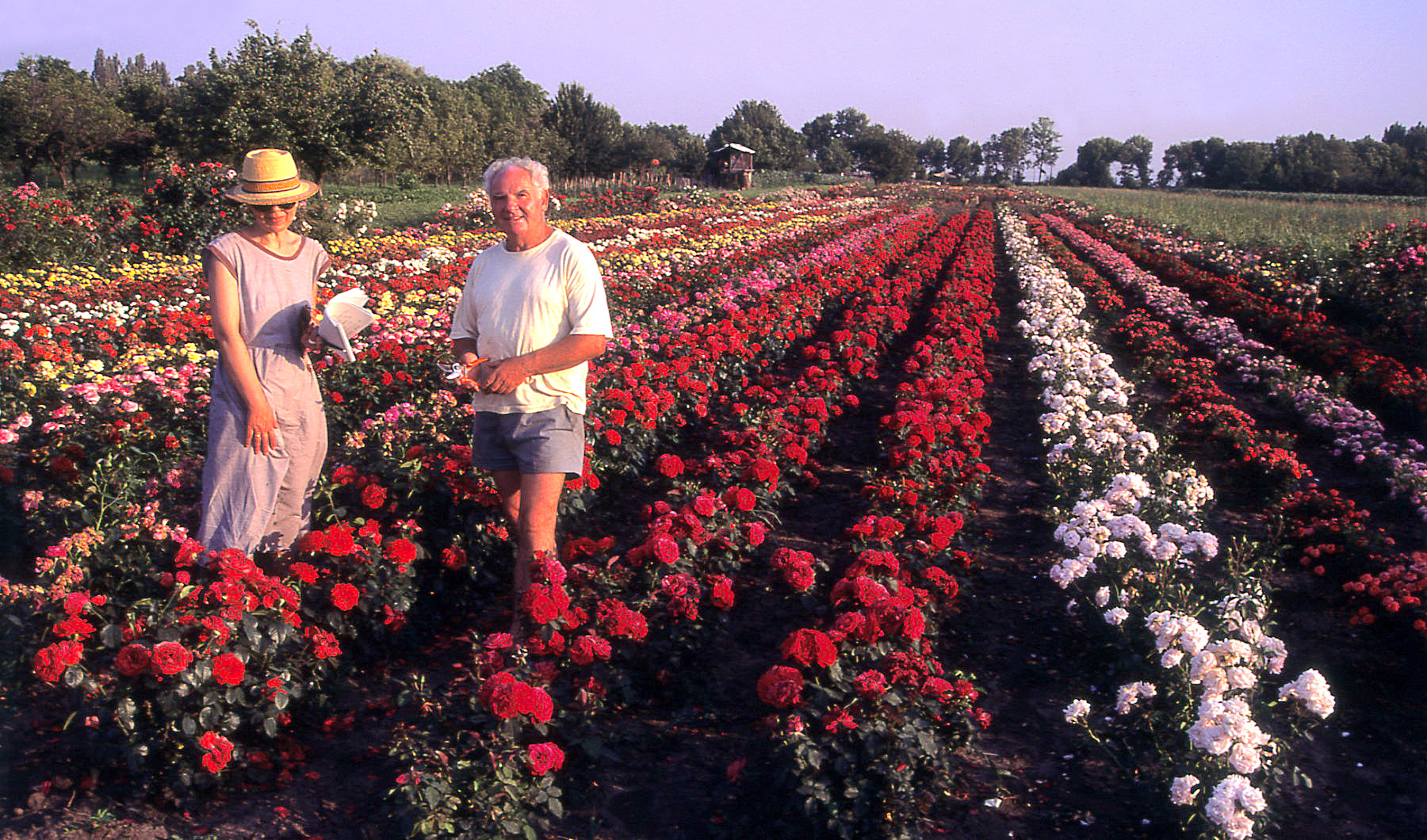 Rosarium Kis, Serbia